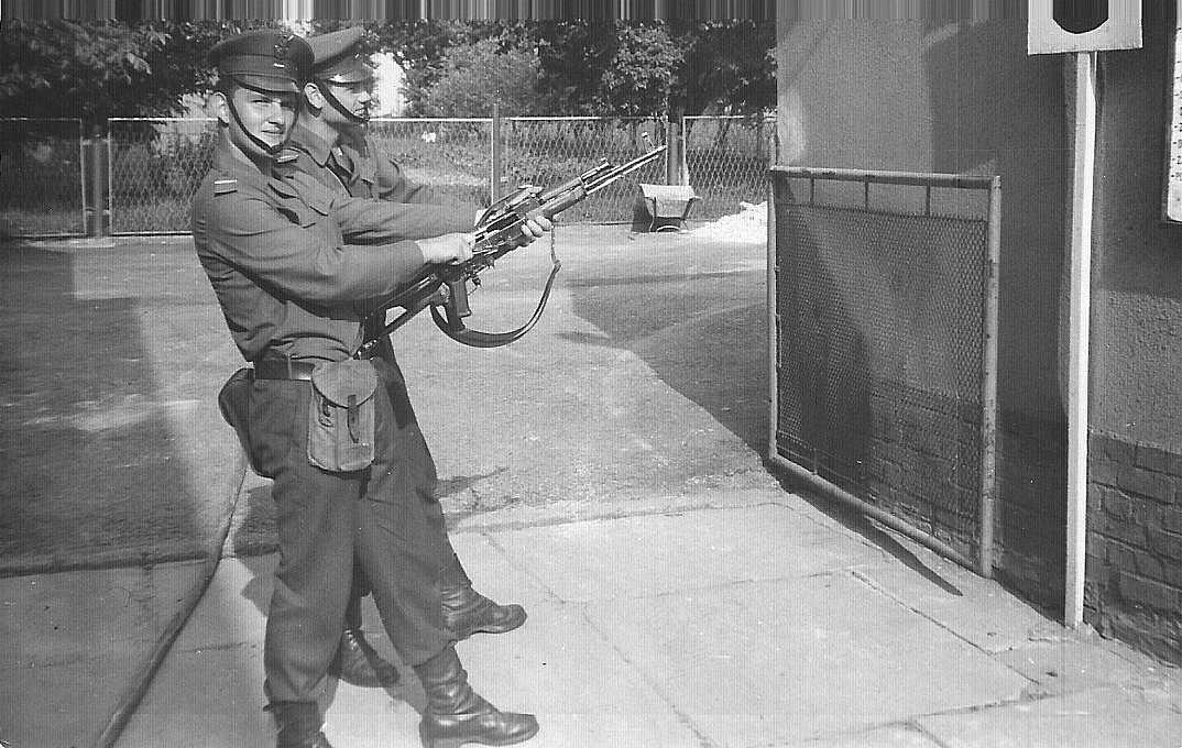 Border Protection Forces in Gierałcice